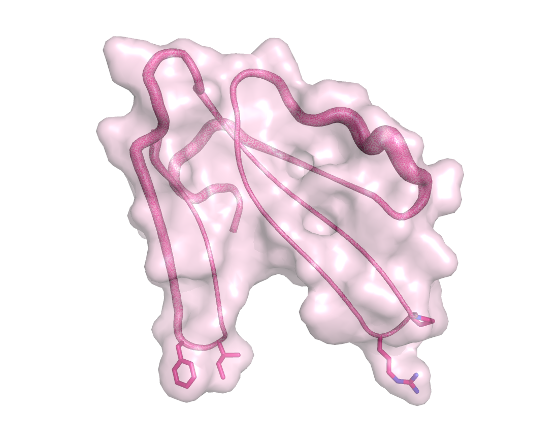 green mamba muscarinic toxin 1 from PDB entry: 4DO8